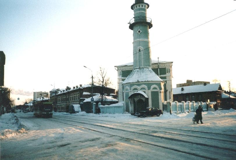 Soltan Mosque in Kazan. 19th century.